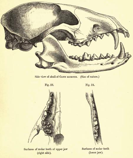 An illustration of a short eared dog skull